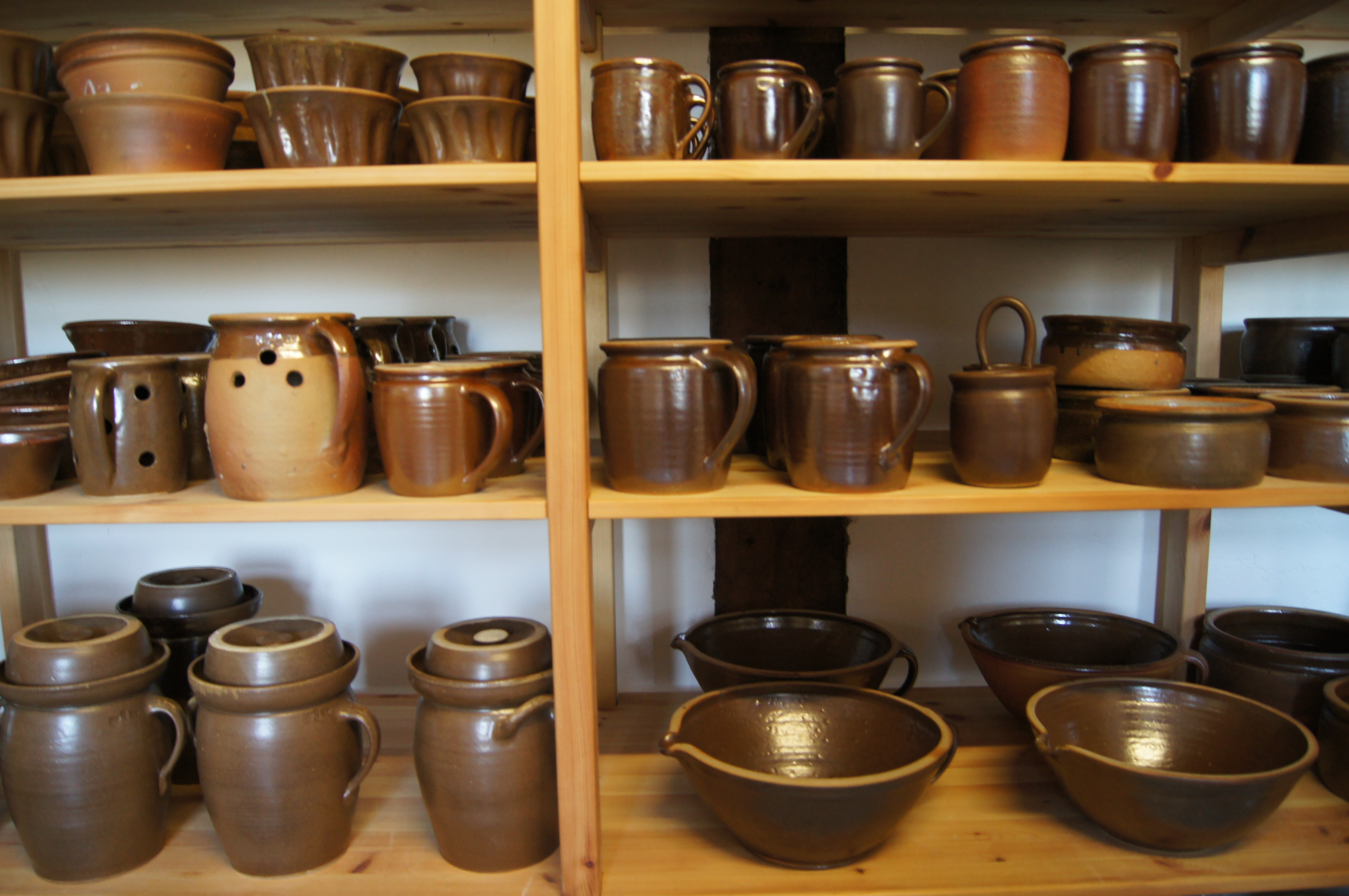 Bolesławiec pottery at the brown pottery ar residential building Alte Dorfstraße 2 in Gross Neuendorf, Letschin, Brandenburg, Germany